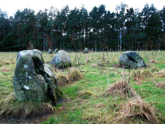 Fortingall Stone Circles To the E of Fortingall stand three groups of standing stones. Closest to the road are a group of four stones and a group of three stones , while further into the field, closer to the river, is another group of three. Originally they had been four-poster variants, each comprising of four large stones at the corners of a rectangle, with four smaller stones mid-way between the larger ones. In both cases, the missing five stones had been pushed over and buried deeply in prepared pits at some point in the nineteenth century. The date is known as one of the stones was found to have a Victorian beer bottle under it.